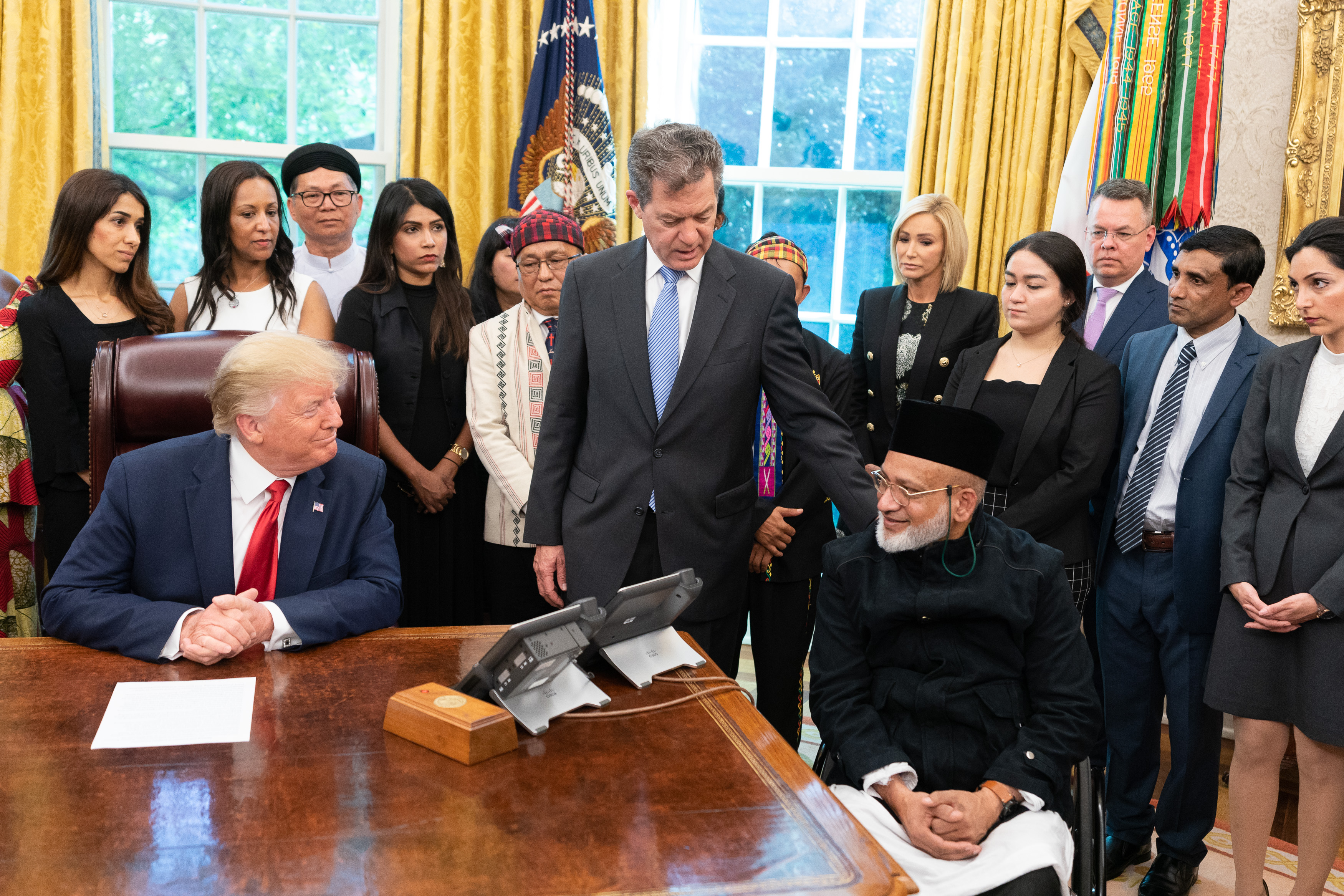 President Donald J. Trump meets with survivors of religious persecution from 17 countries Wednesday, July 17, 2019, in the Oval Office of the White House. (Official White House Photo by Shealah Craighead)